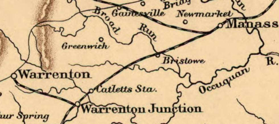 The map shows the Warrenton and Warrenton Junction area of Virginia where the 1st West Virginia Cavalry was surprised by Confederate leader John S. Mosby during May 1863.